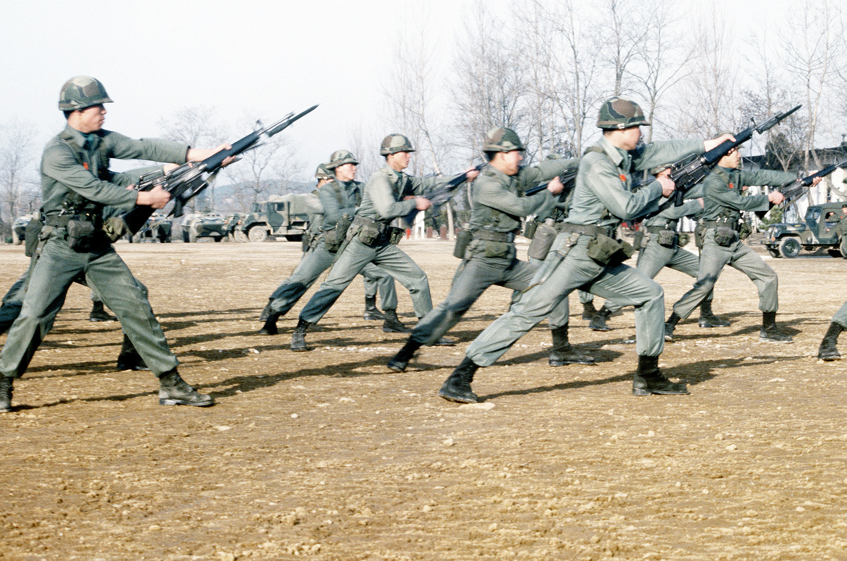 Republic of Korea marines engage in bayonet training during Exercise Team Spirit '83 The original finding aid described this photograph as: Subject Operation/Series: TEAM SPIRIT '83 Base: Pohang Country: Korea Scene Camera Operator: CPL W. S. Karlen Release Status: Released to Public